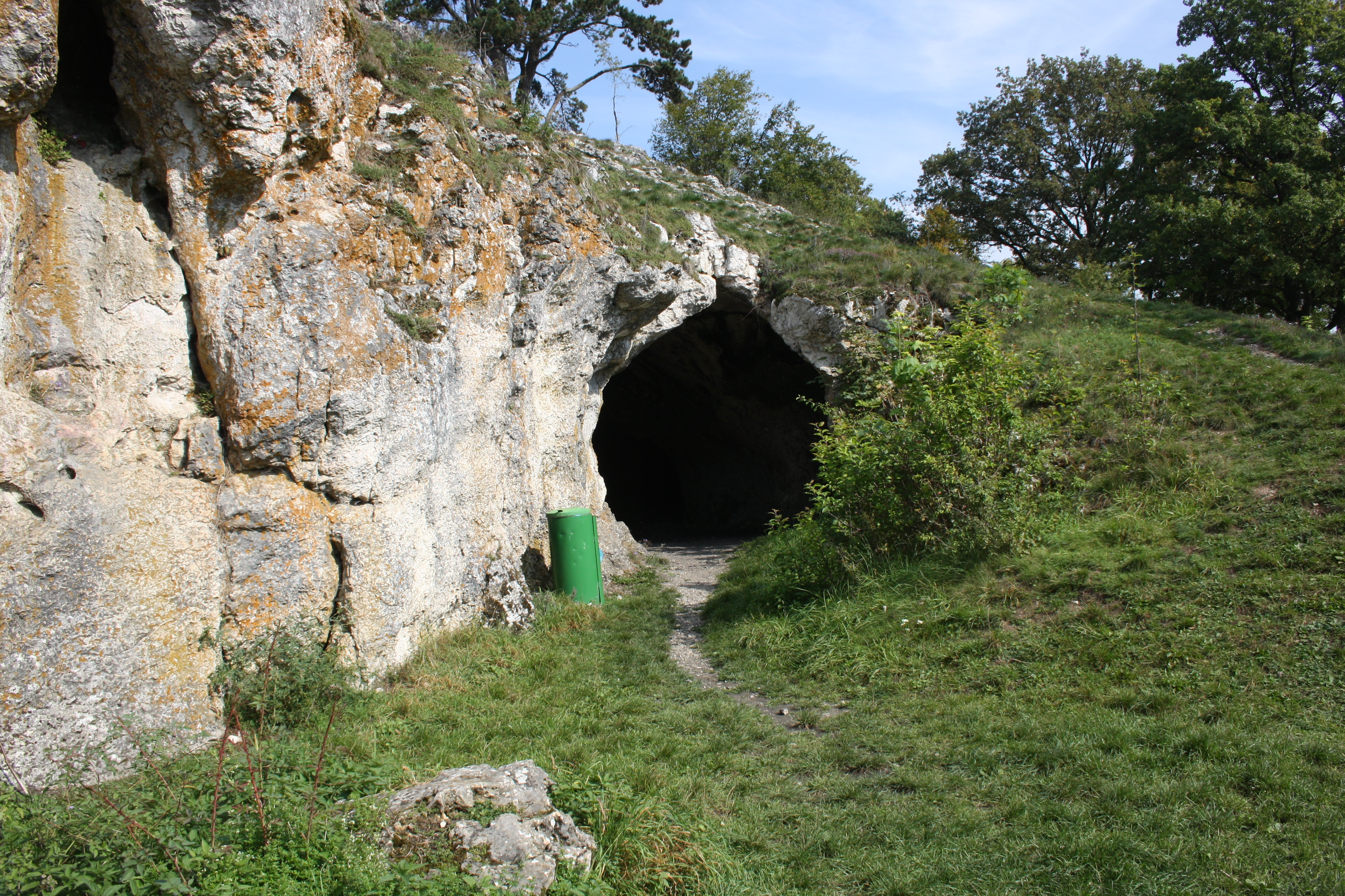 The entry to the Vogelherd cave in the Lonetal, Germany.